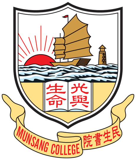 Munsang Emblem